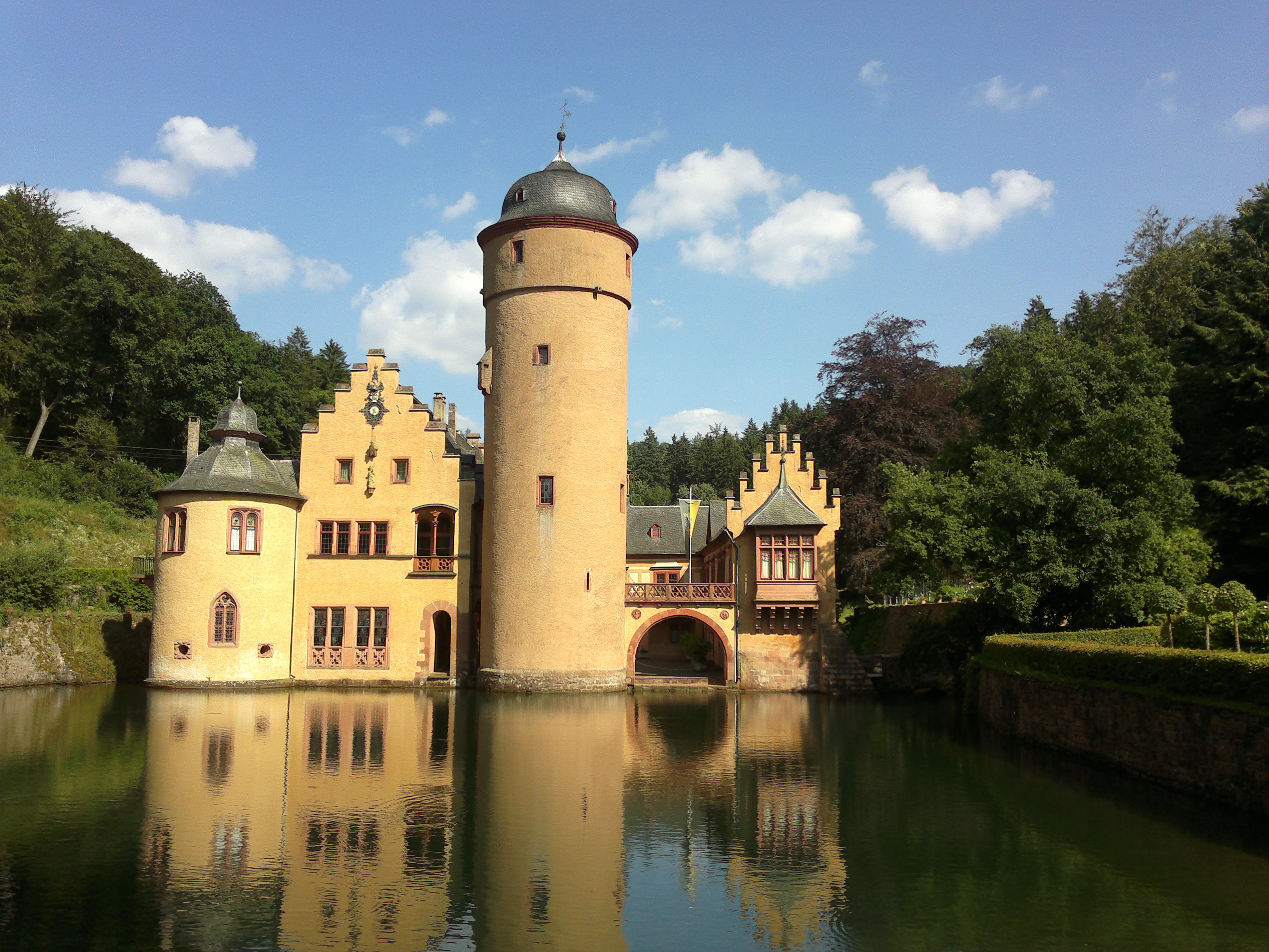 This is a photograph of an architectural monument.